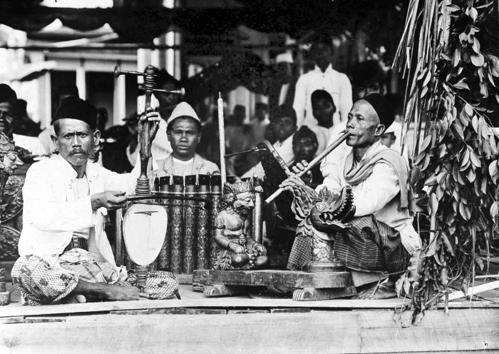 A suling and a rebab player